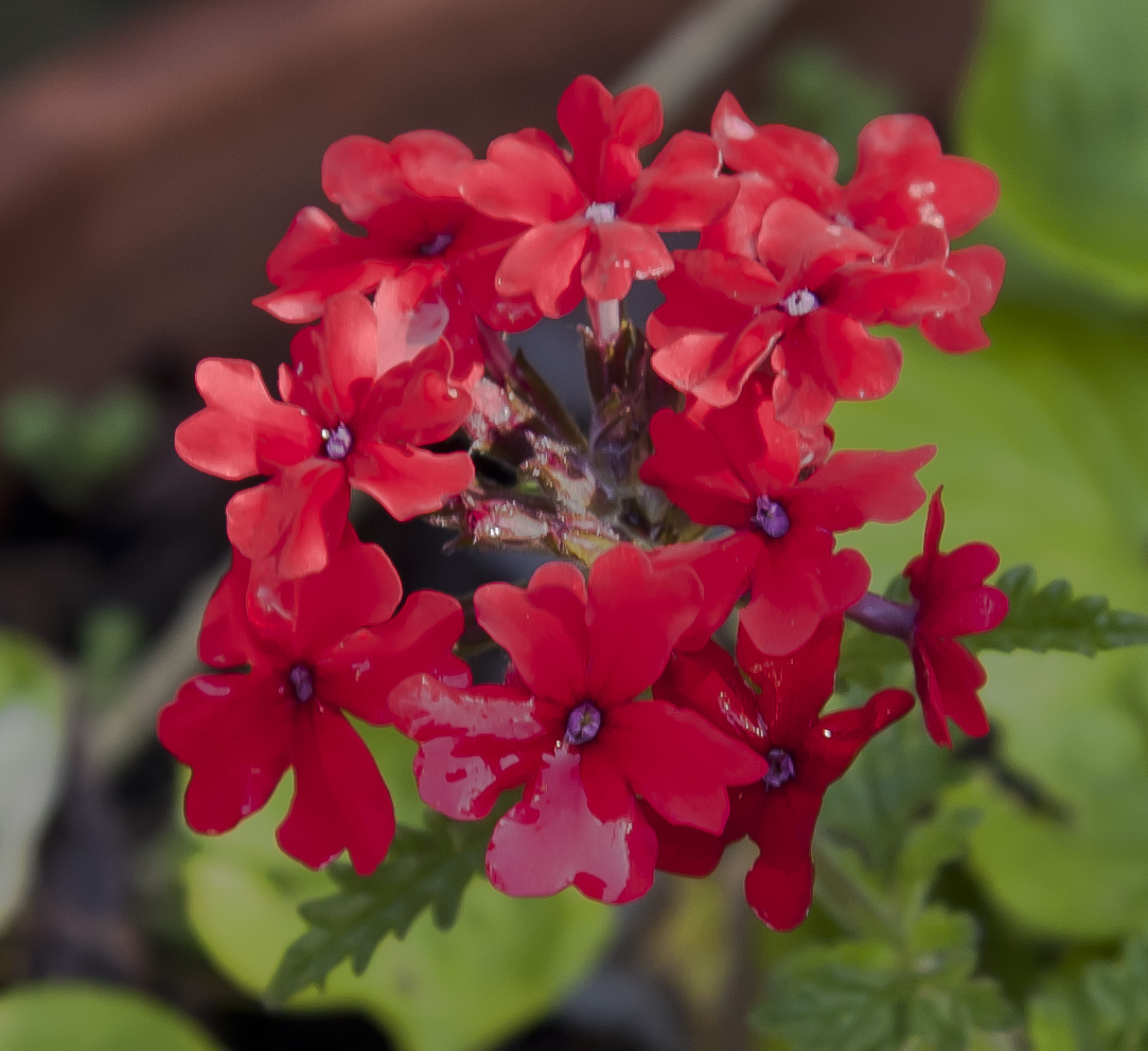 Glandularia peruviana, mill garden, Sierra of Saint Philip, Setubal, Portugal